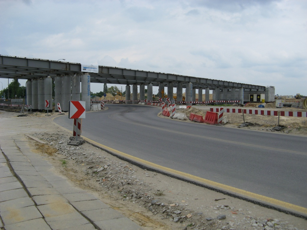 The North Bridge in Warsaw (Poland) over the Marymont Street (ul. Marymoncka), under construction. May 30th, 2010.